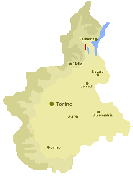 Position of the valley Val Strona